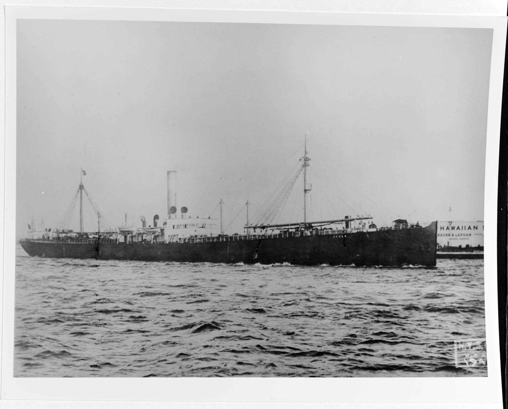 SS Texan. American Freighter, built 1902. Photographed prior to World War I, with a building in the right background bearing the name of her owner, the American Hawaiian Steam Ship Company. The print carries her builder's stamp: New York Shipbuilding Corp., of Camden, New Jersey. This ship was acquired by the Navy on 18 March 1918 and commissioned on 23 March as USS Texan (ID # 1354). She was turned over to the United States Shipping Board on 22 August 1919. The original print is in National Archives' Record Group 19-LCM. U.S. Naval History and Heritage Command Photograph.